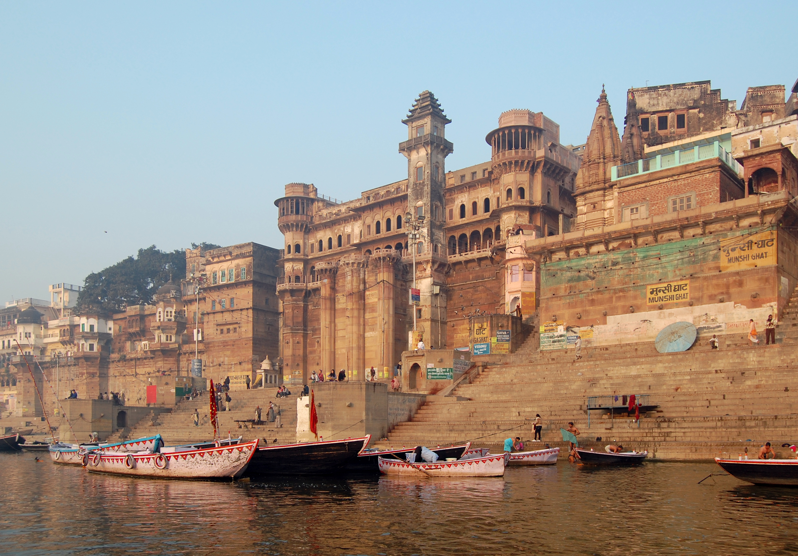 Varanasi, India as seen from Ganga river.